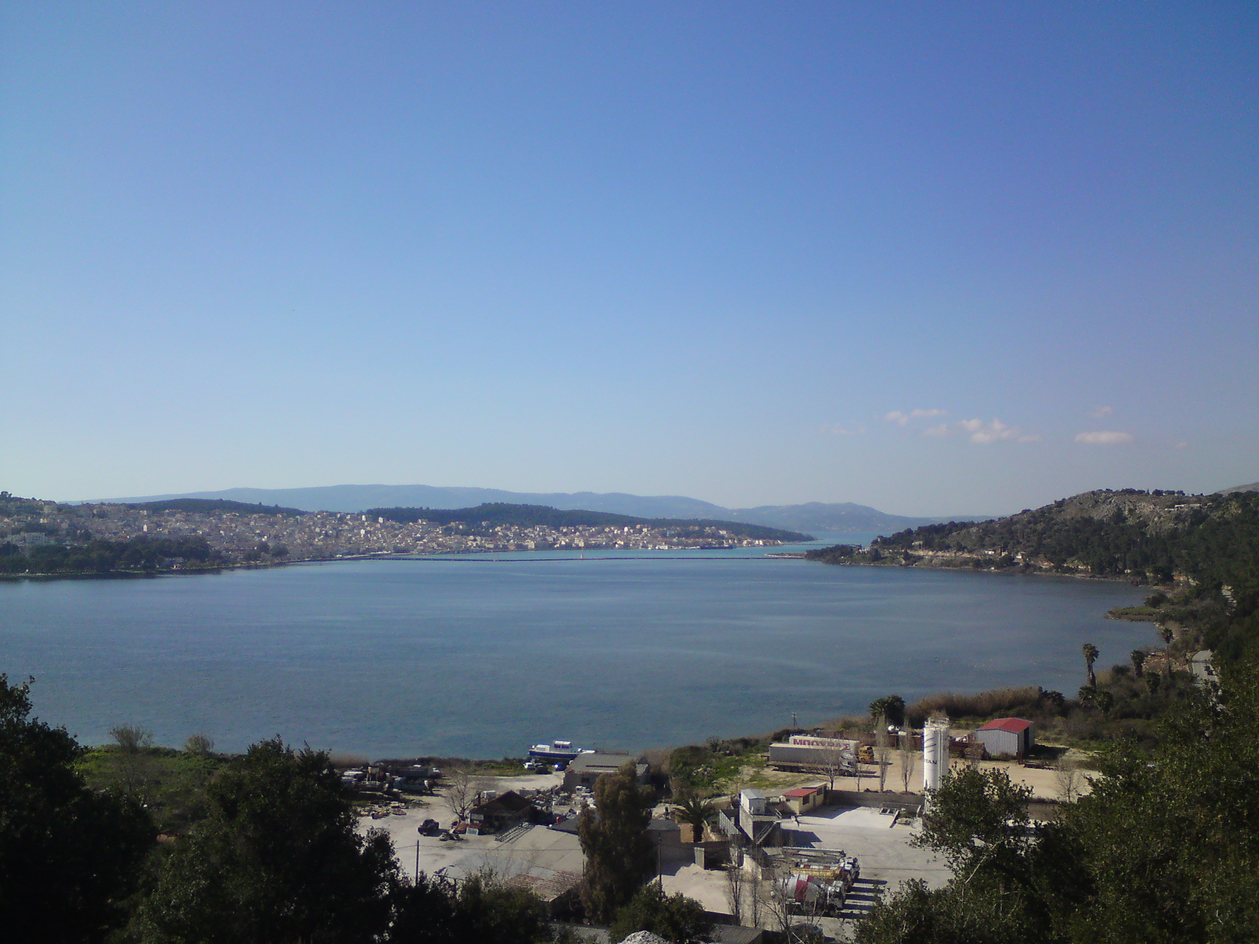 Panoramic view of the Koutavos lagoon, from the acropolis of Ancient Krani, Argostoli, Kefalonia, Greece